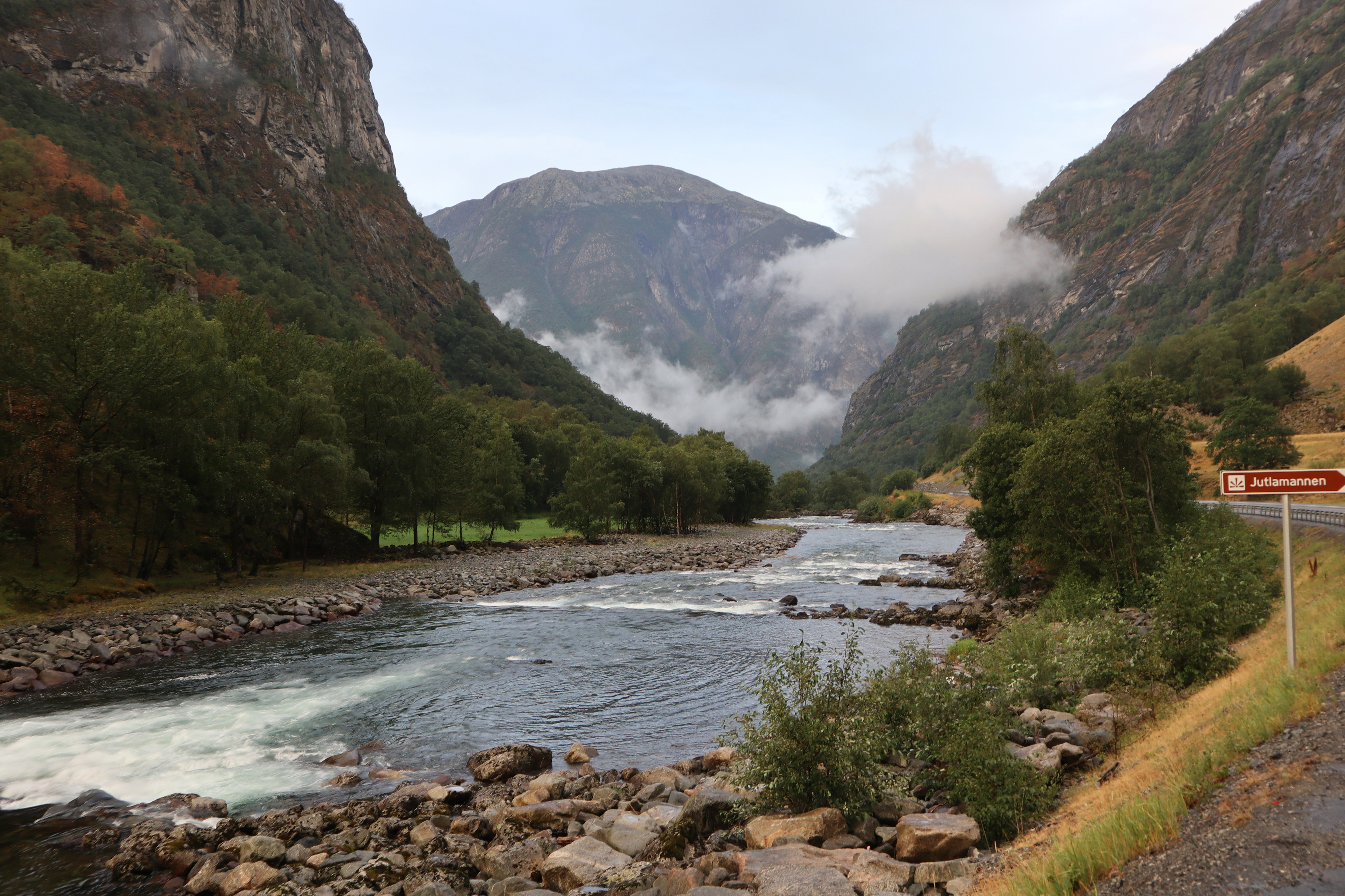 Valley Lærdal by Jutlamannen